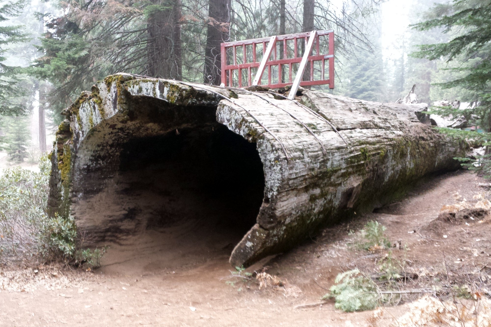 The Hollow Grove in Balch County Park is one of the main attractions of the Mountain Home sequoia grove.